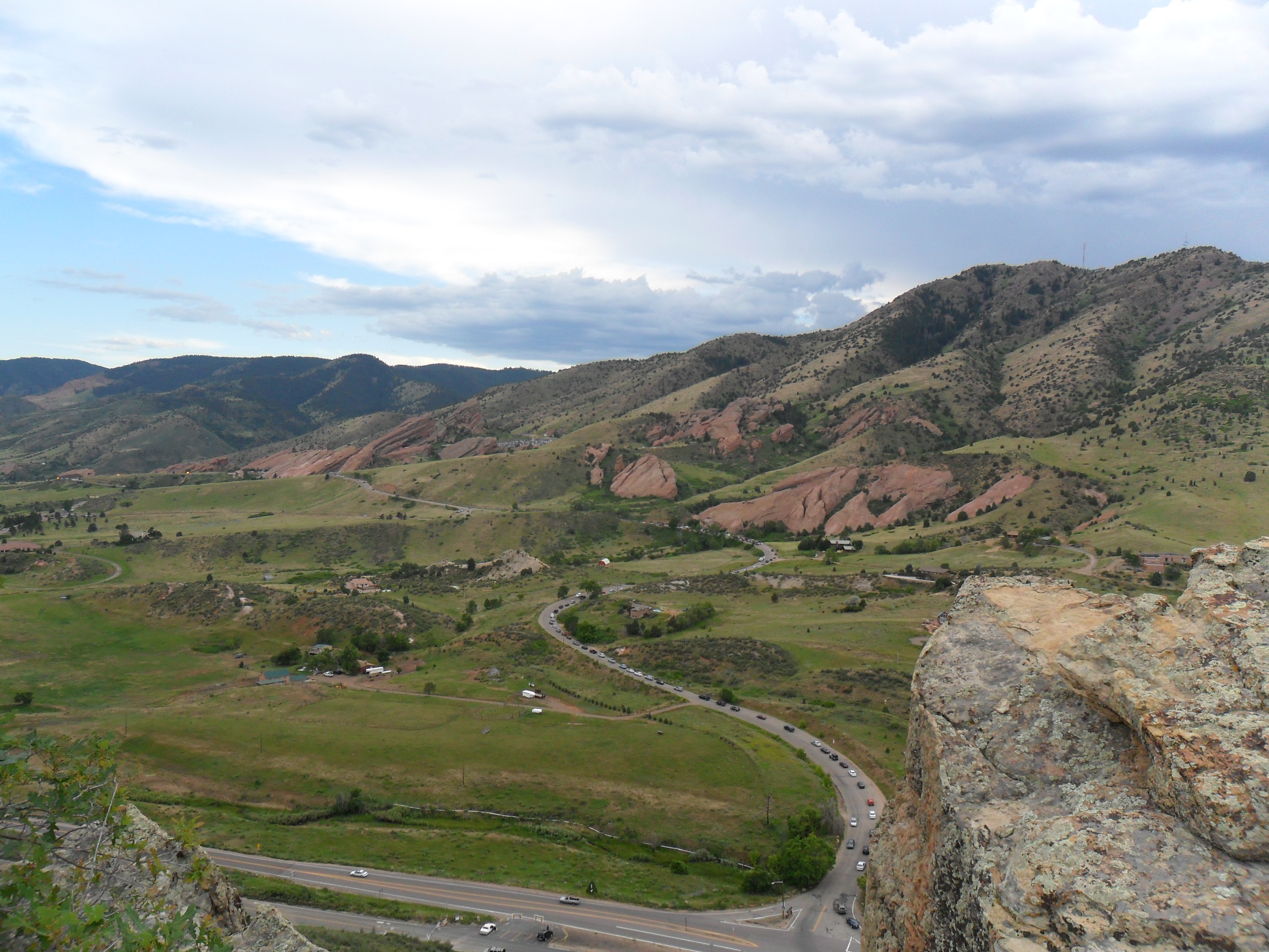 Red Rocks at the base of Mount Morrison